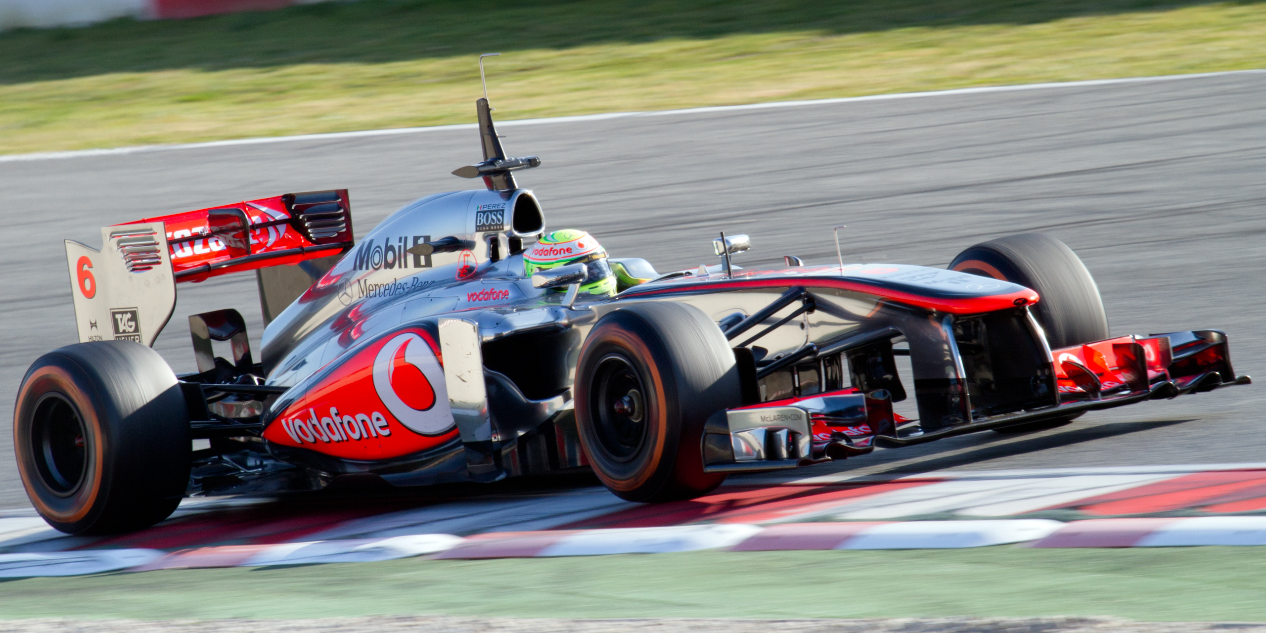 Formula One 2013 Catalonia test (19-22 February): Sergio Pérez (McLaren)